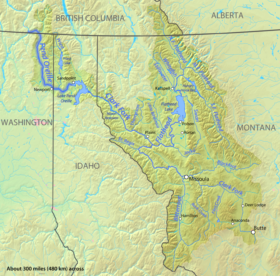 Watershed map of the Pend Oreille River — a tributary of the Columbia River in Idaho, Washington, and British Columbia. Within the Columbia River Basin of the Northwestern United States and Western Canada. Showing the primary tributaries of the Pend Oreille River: the Clark Fork River) (Montana/Idaho) and its tributary the Bitterroot River; and the Flathead River (Montana).